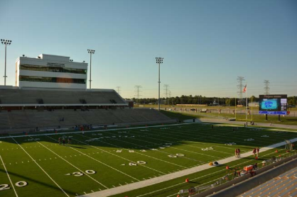 Ken Pridgeon Stadium in Cypress, Texas. 1 of 2 homes of CFISD football